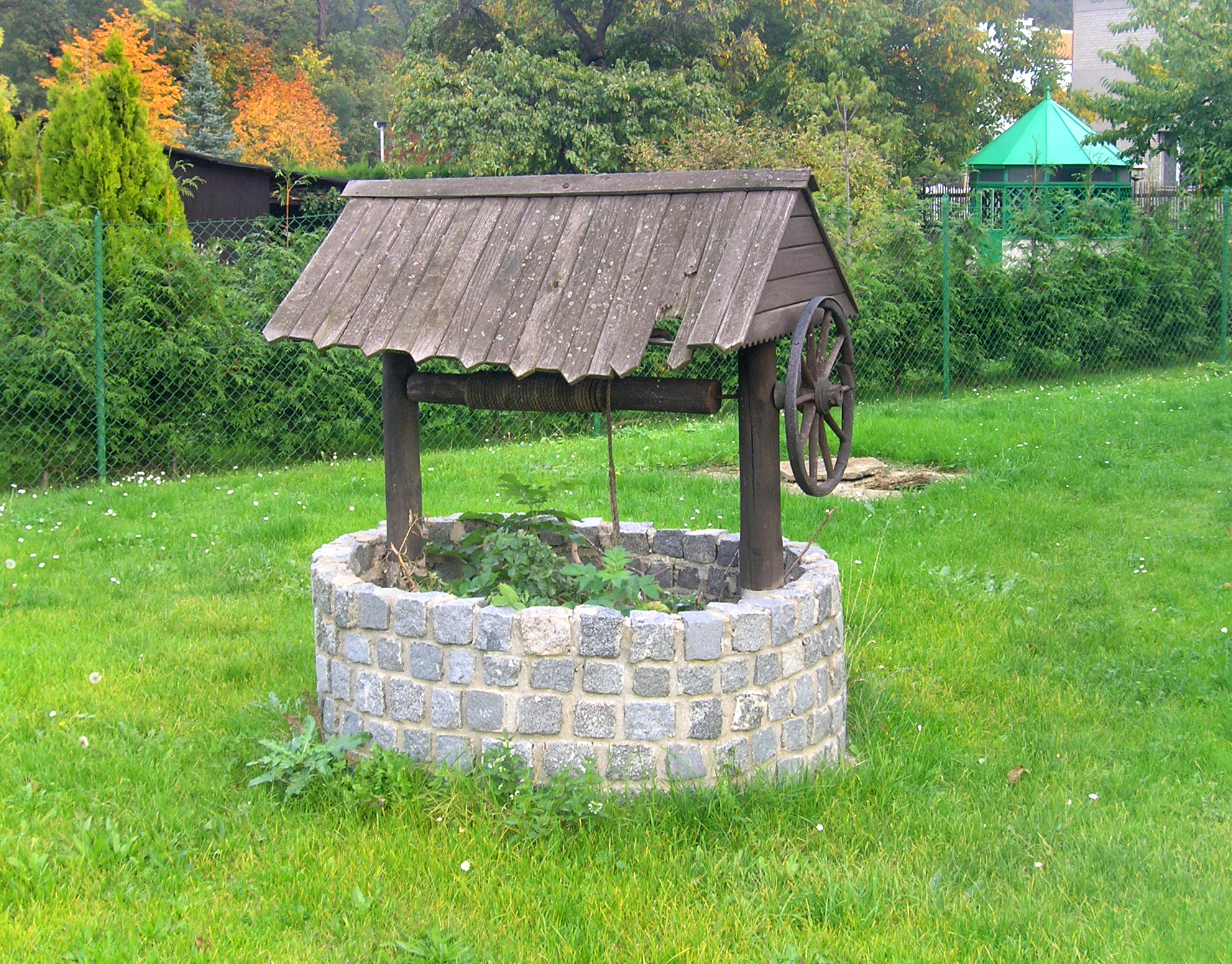 Well in Satalice, Prague